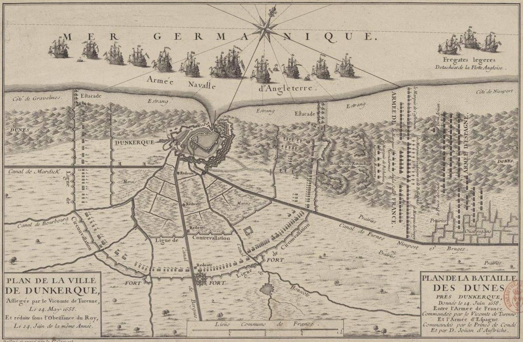 Map of Dunkirk and the Battle of the Dunes with blockade of the British fleet in 1658.